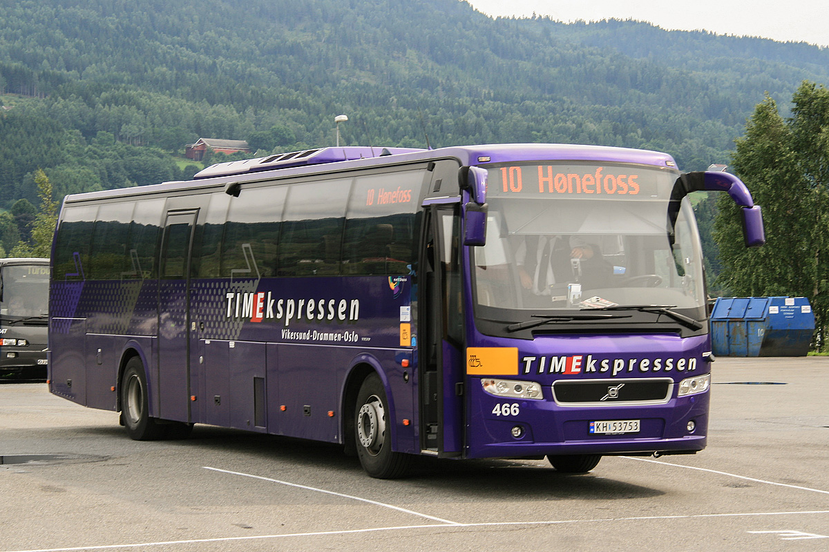 2007 Volvo 9700S NG on Volvo B12M at Vikersund station. Part of the Unibuss project for accessibility in the Drammen area.